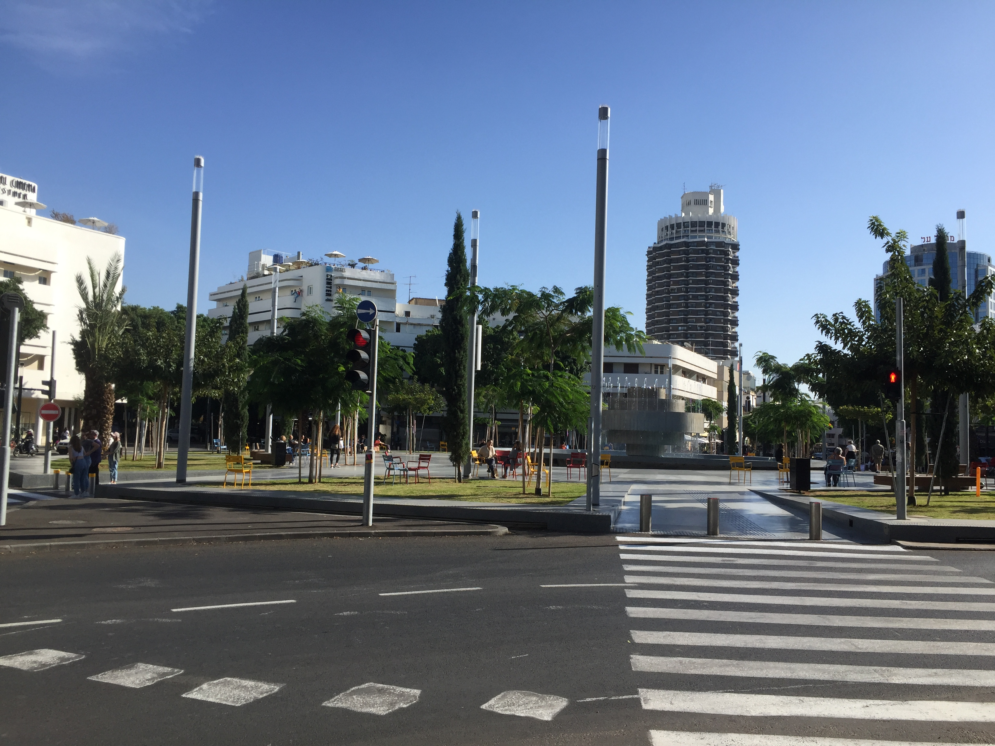 Dizengoff-Square, Tel Aviv after closing the tunnels and reformations.